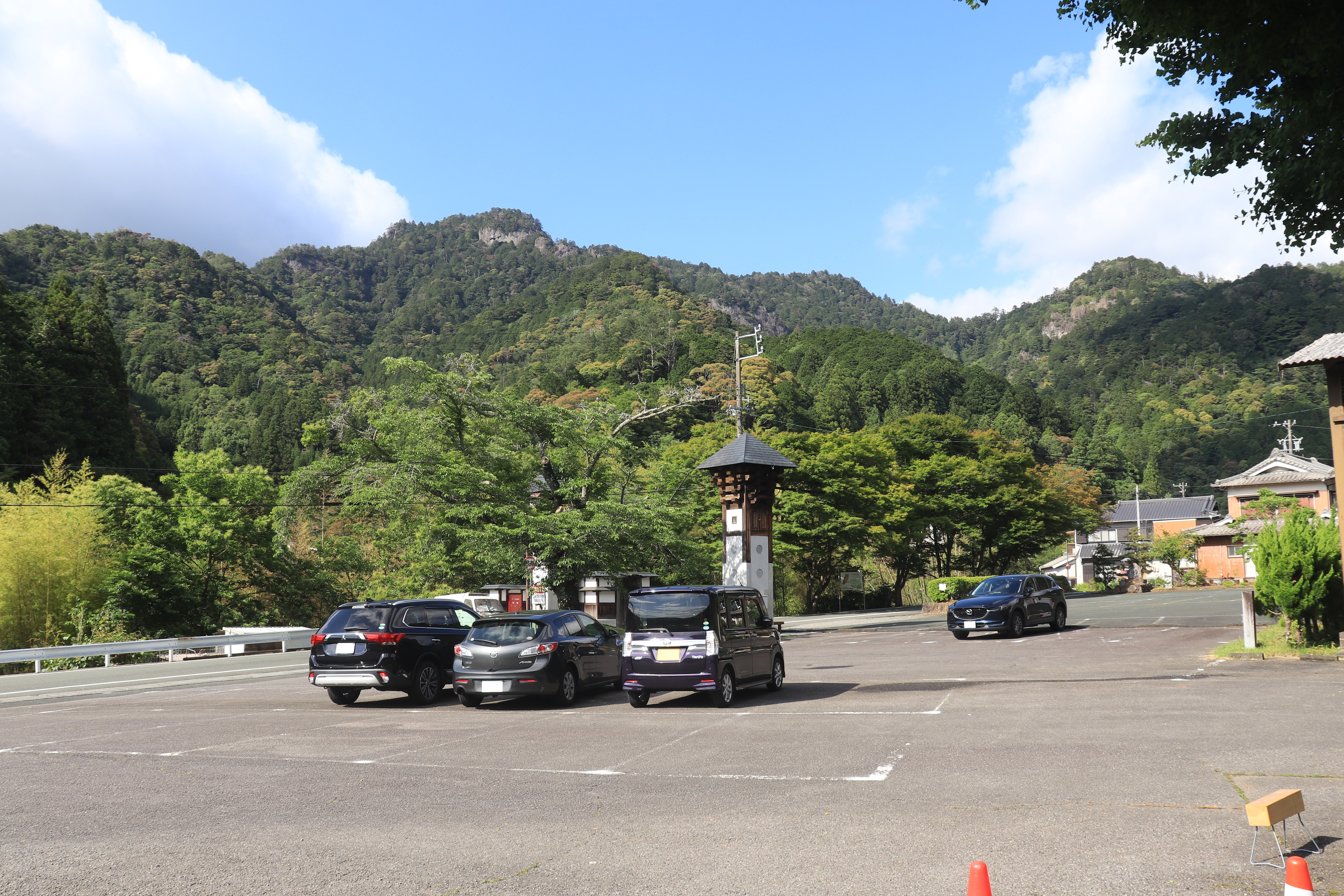 Mount Houraiji seen from Ichinomon on Aichi Prefectural Road Route 441 in Shinshiro, Aichi Prefecture, Japan.